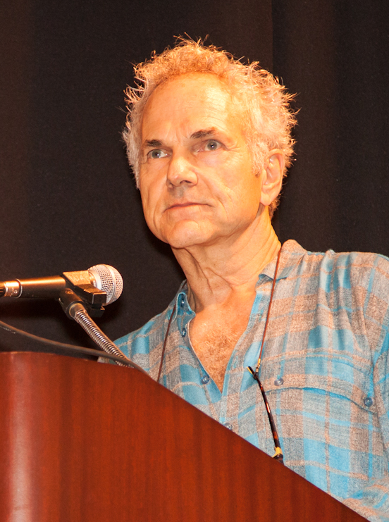 Photographer Richard Misrach presented a lecture at the Rich Theater inside the Woodruff Arts Center, Atlanta, on Thursday, June 7, 2012.